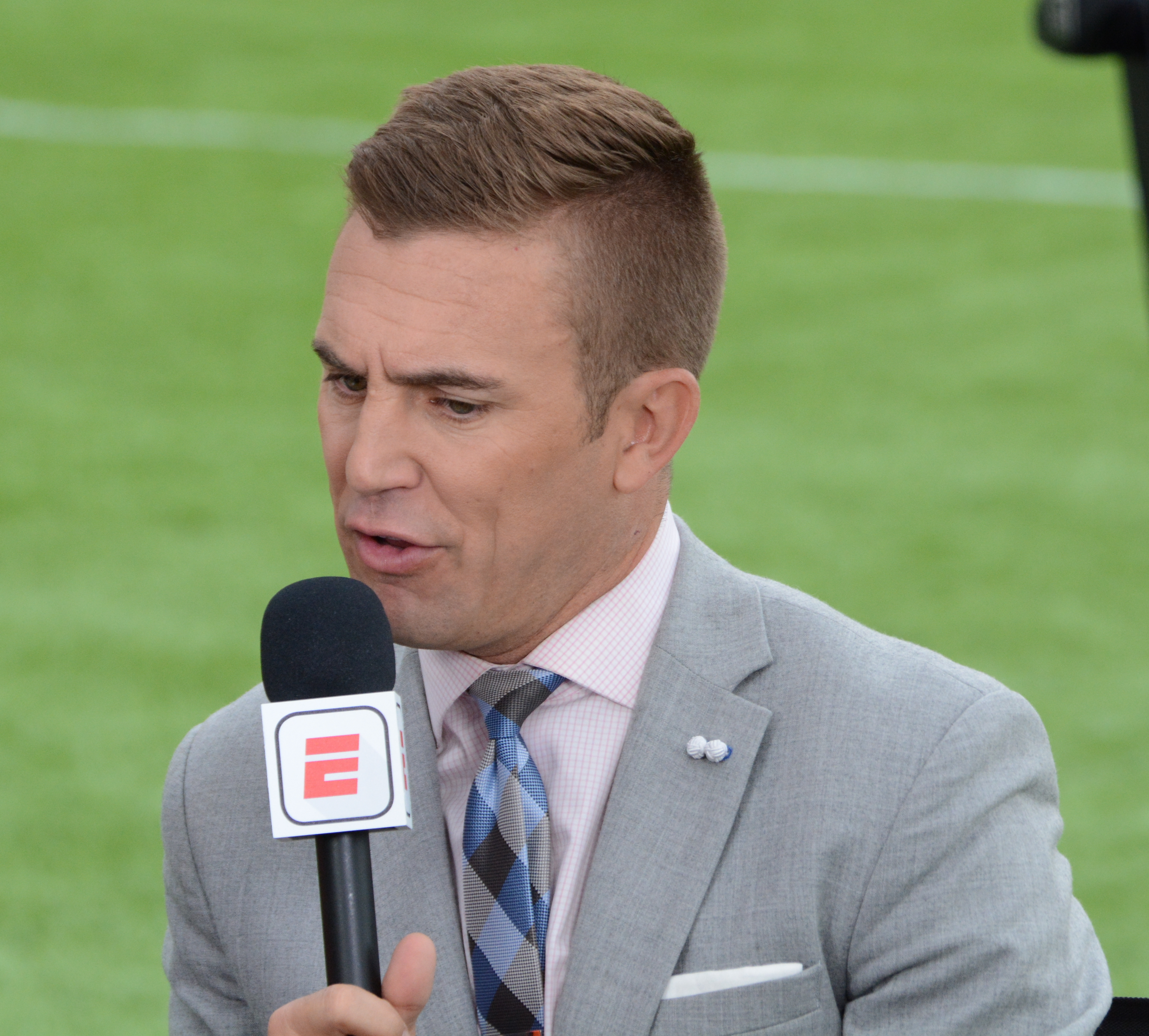 Taken during a Major League Soccer regular season match between FC Cincinnati and Sporting Kansas City at Nippert Stadium in Cincinnati, USA on April 7, 2019.